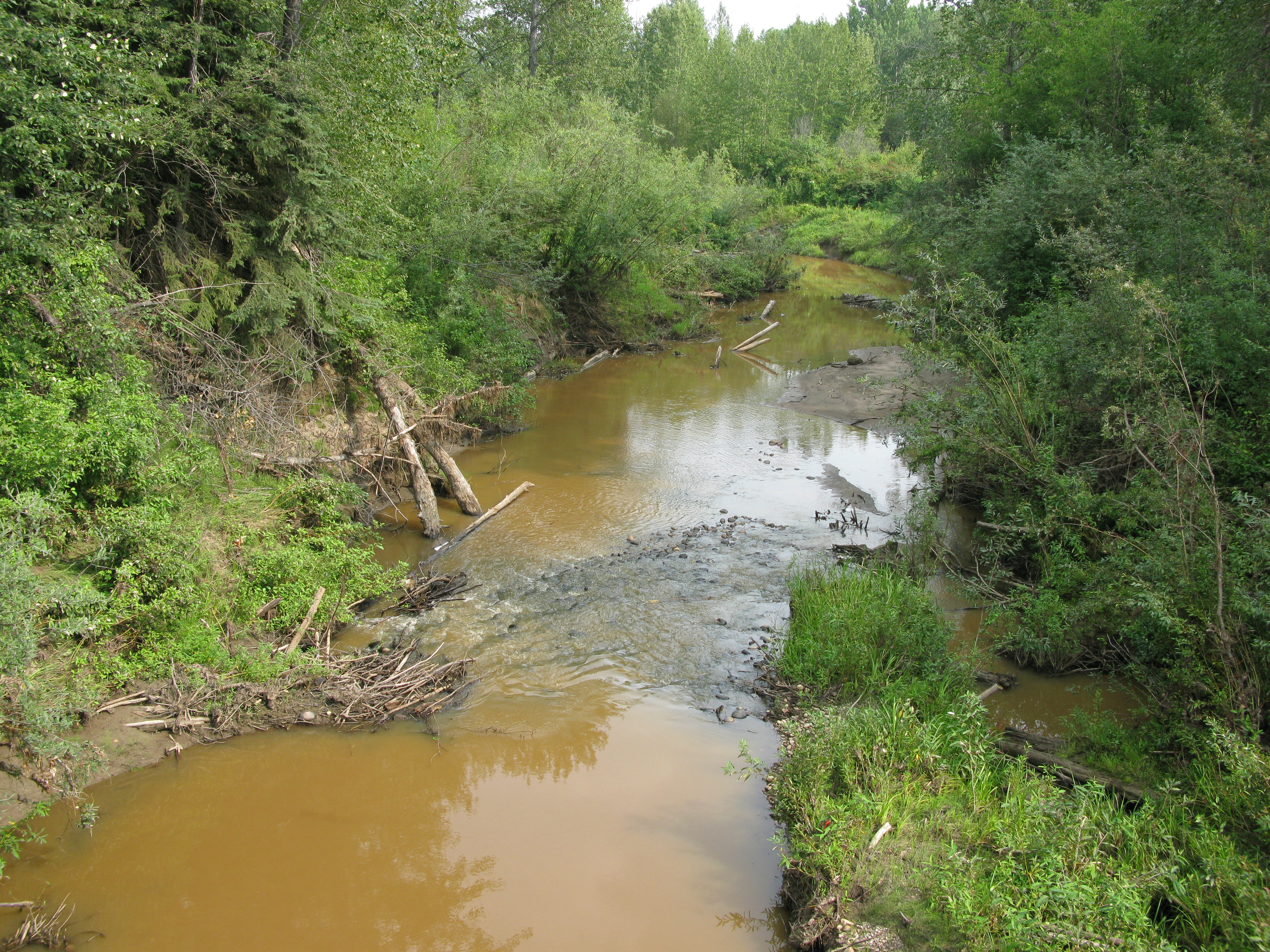 Assineau River, near Lesser Slave Lake.